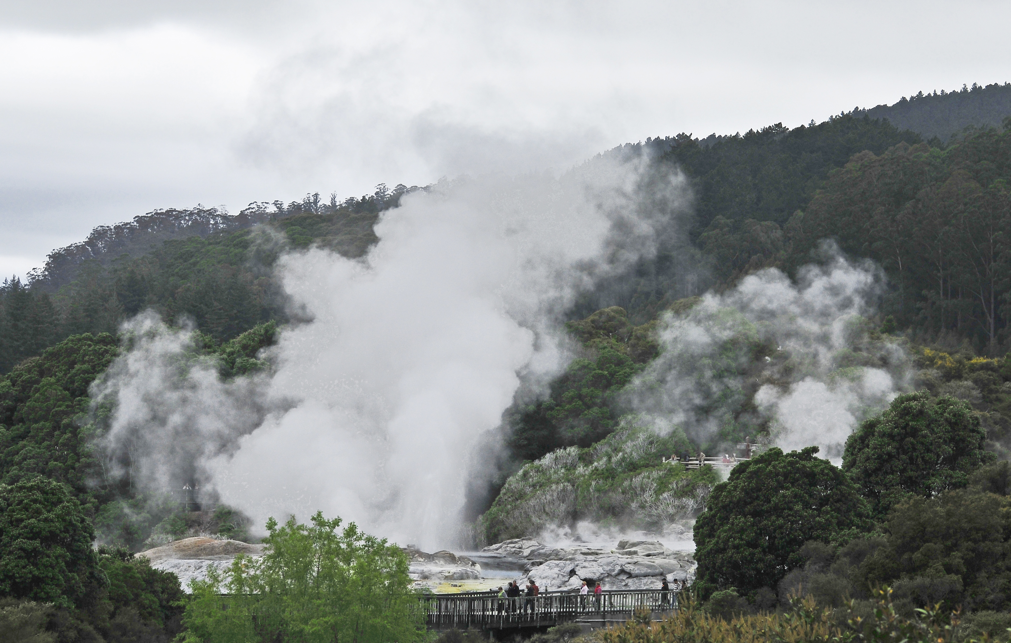 Pohuti Geyser. Whakarewarewa geothermal area. Rotorua, North Island, New Zealand